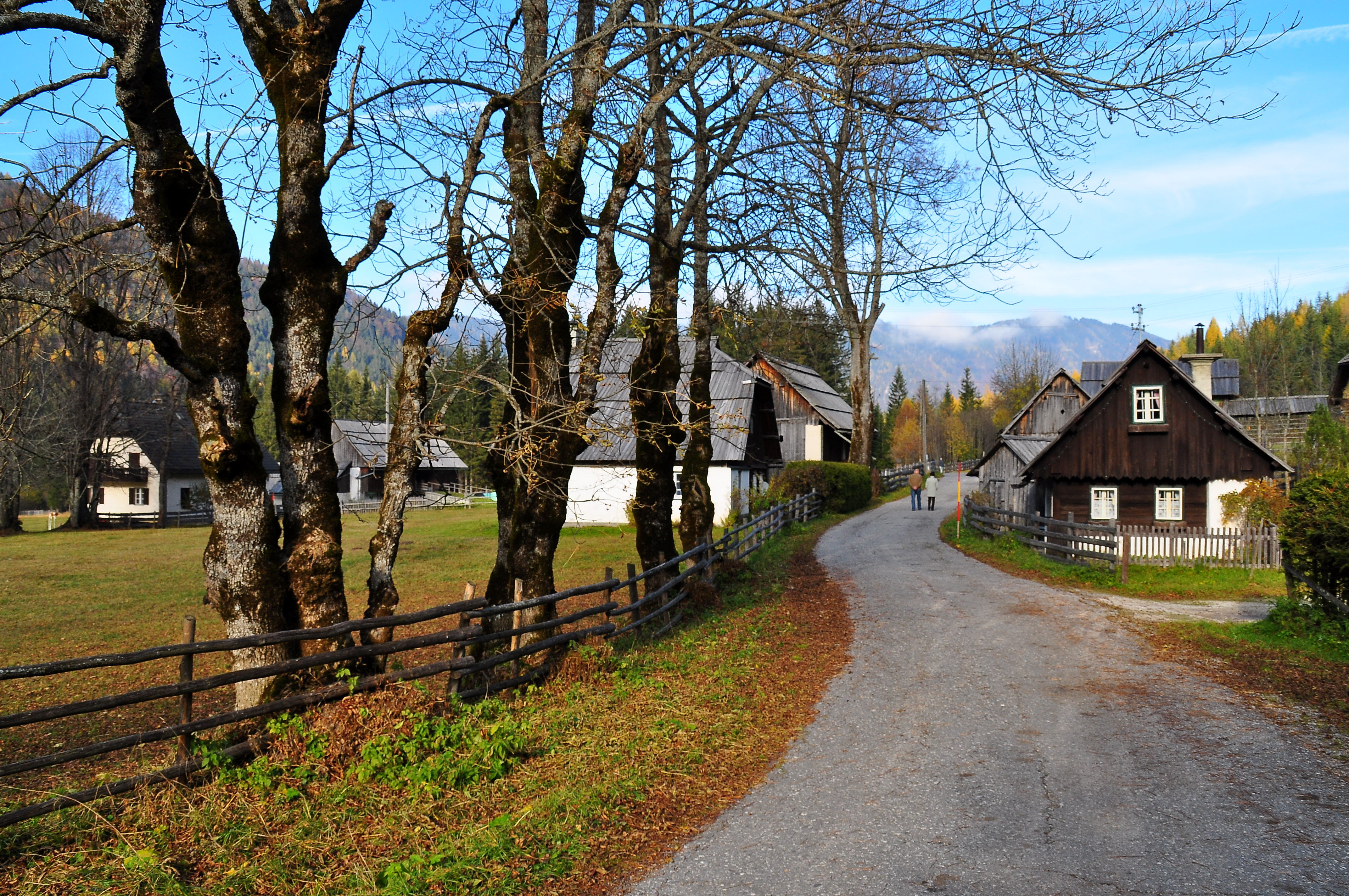 Autumnal landscape with chalets on the road that leads to the “Bodenbauer” in Bodental, municipality Ferlach, district Klagenfurt-Land, Carinthia, Austria